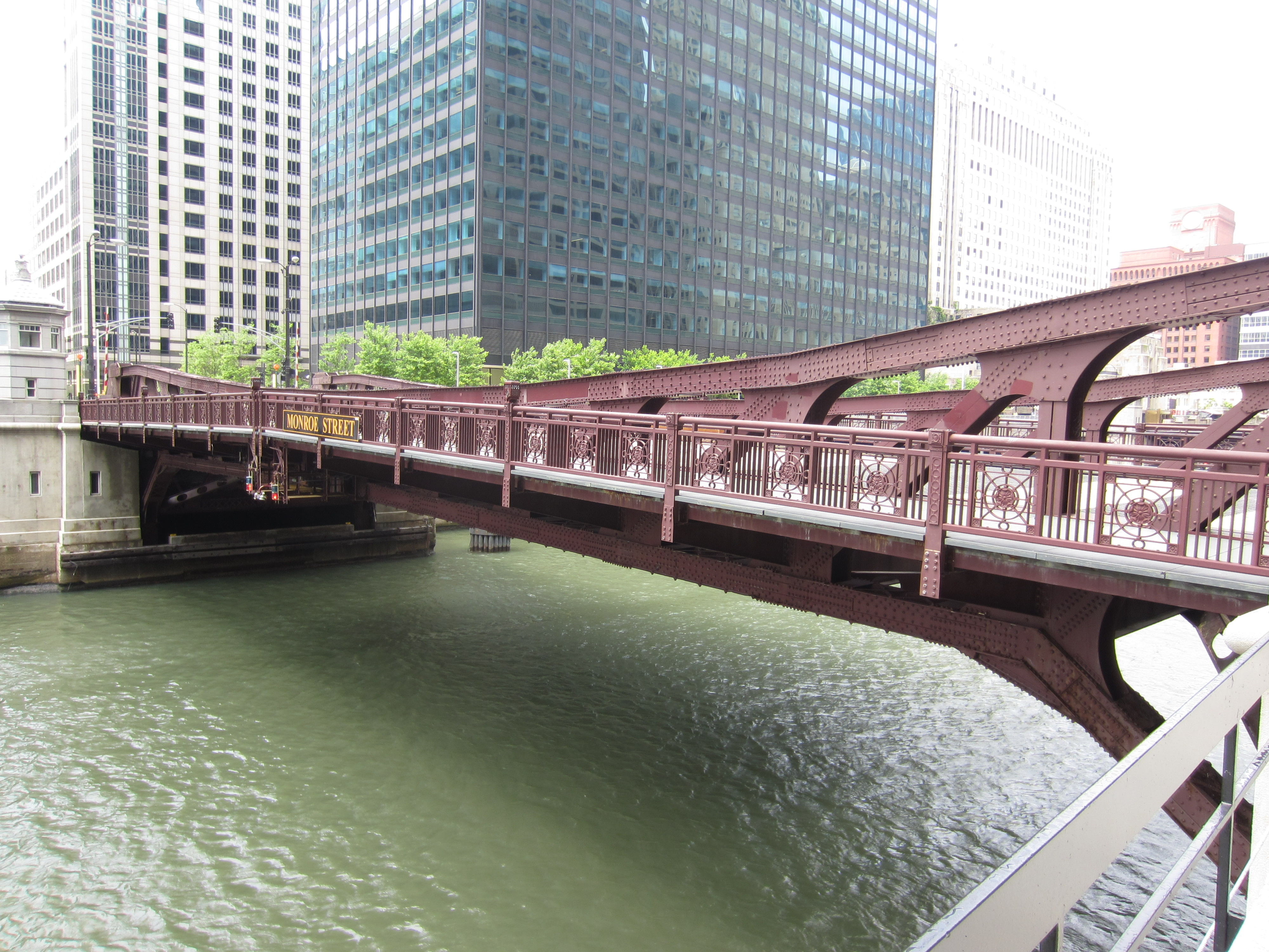 The Monroe Street Bridge, in Chicago, Illinois, June 2015